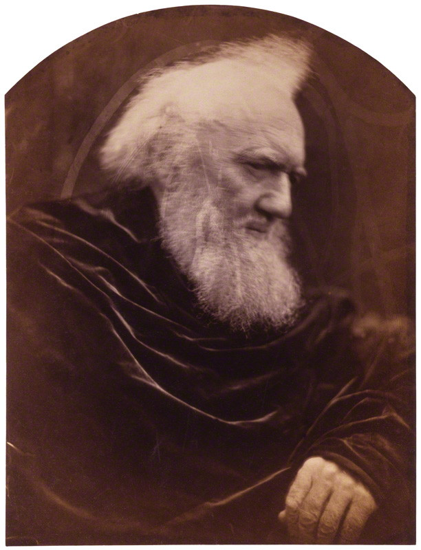 Portrait of Henry Thoby Prinsep, member of the Prinsep family, descendants of John Prinsep, merchant in India and later Member of Parliament. Albumen print with arched top.